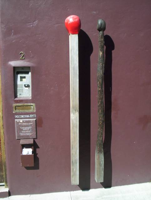 Brett Whiteley gallery in Raper Street, Surry Hills, Sydney.